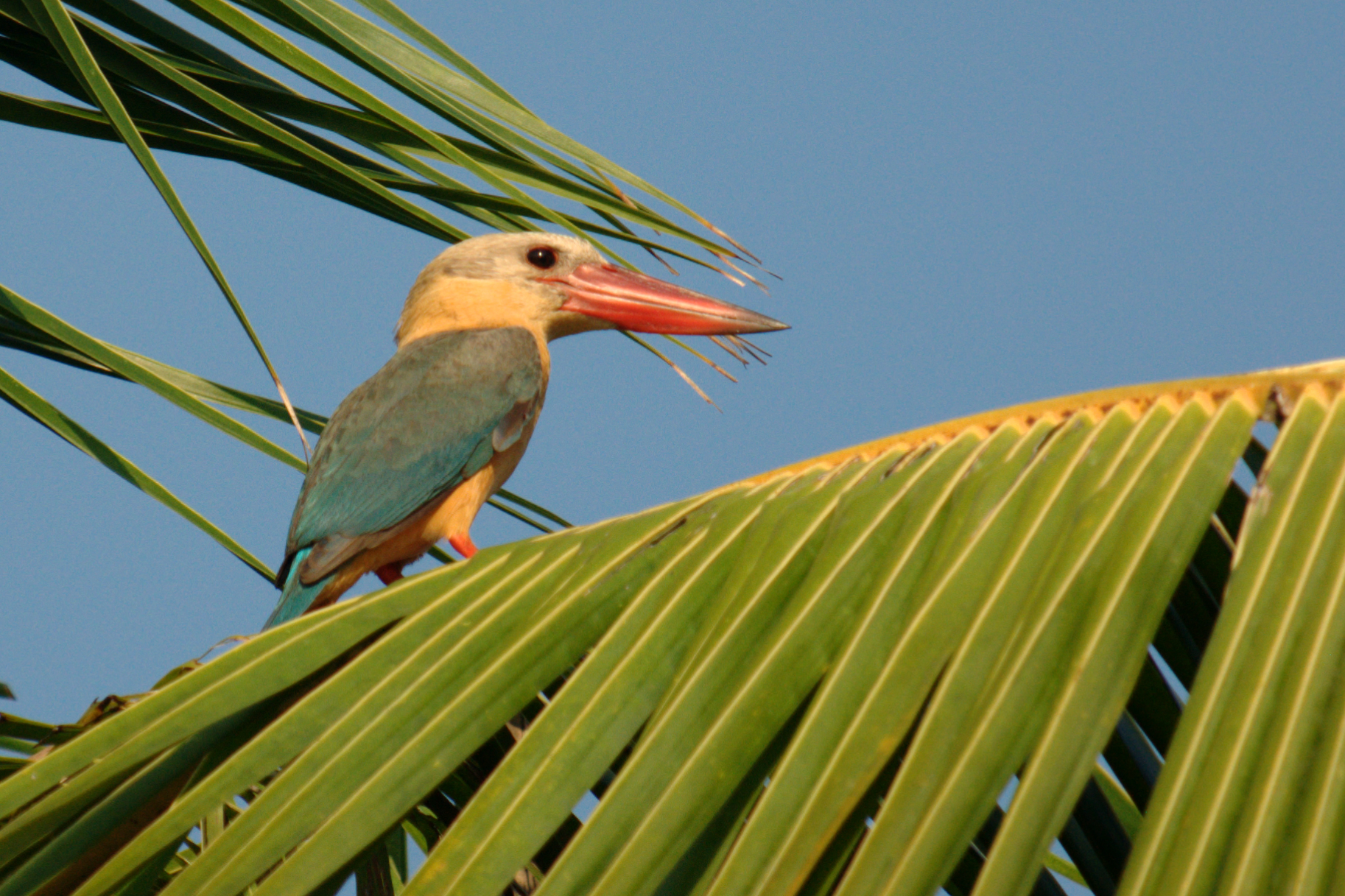 Stork-billed Kingfisher at Sippighat, South Andaman Island, India